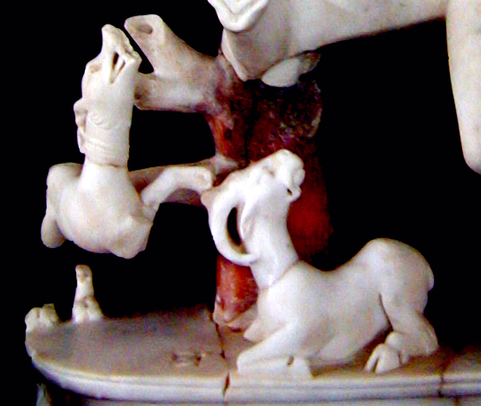 Detail of the Ganymede statuette, exposed at the Carthage Paleo-Christian Museum